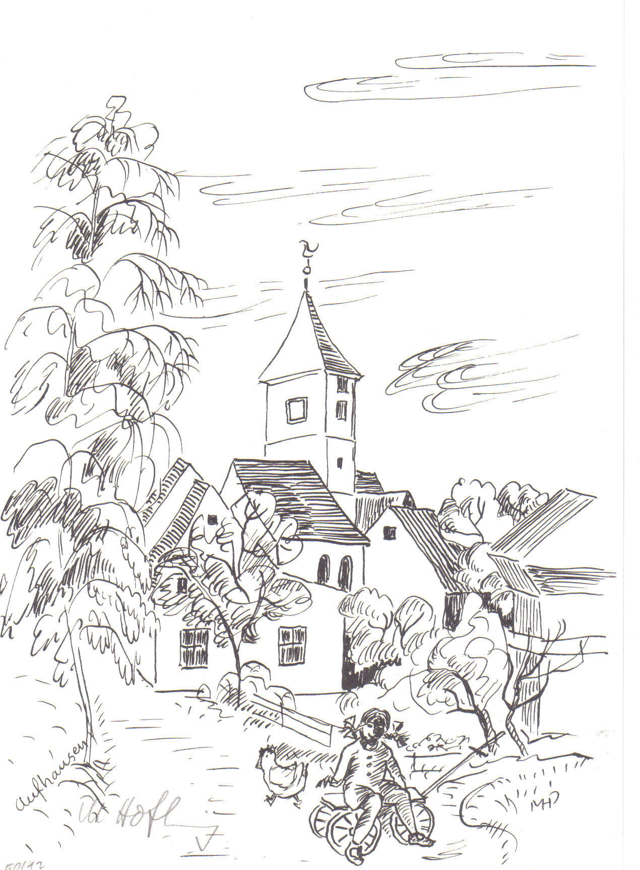 Aufhausen, quarter of Geislingen an der Steige, ink drawing, 20 x 30 cm